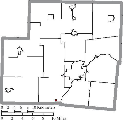 Map of the municipal and township boundaries of Shelby County, Ohio, United States, as of the 2000 census, with the location of the village of Lockington highlighted. Township borders are shown only in unincorporated areas in order to differentiate incorporated and unincorporated areas more clearly.